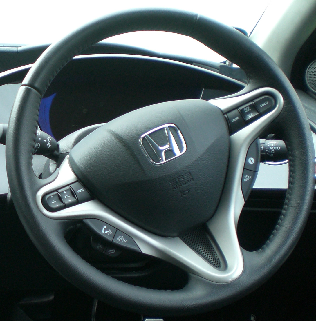 Driver's steering wheel airbag in a 2006 Honda Civic.